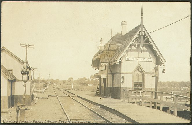 Atherley Jct. Railway Station. Atherley, Ontario, Canada Creator: Herrington & Son Date: 1910 Identifier: PC-ON 58 Format: Postcard Rights: Public domain Courtesy: Toronto Public Library You can order order a print or high-resolution copy.